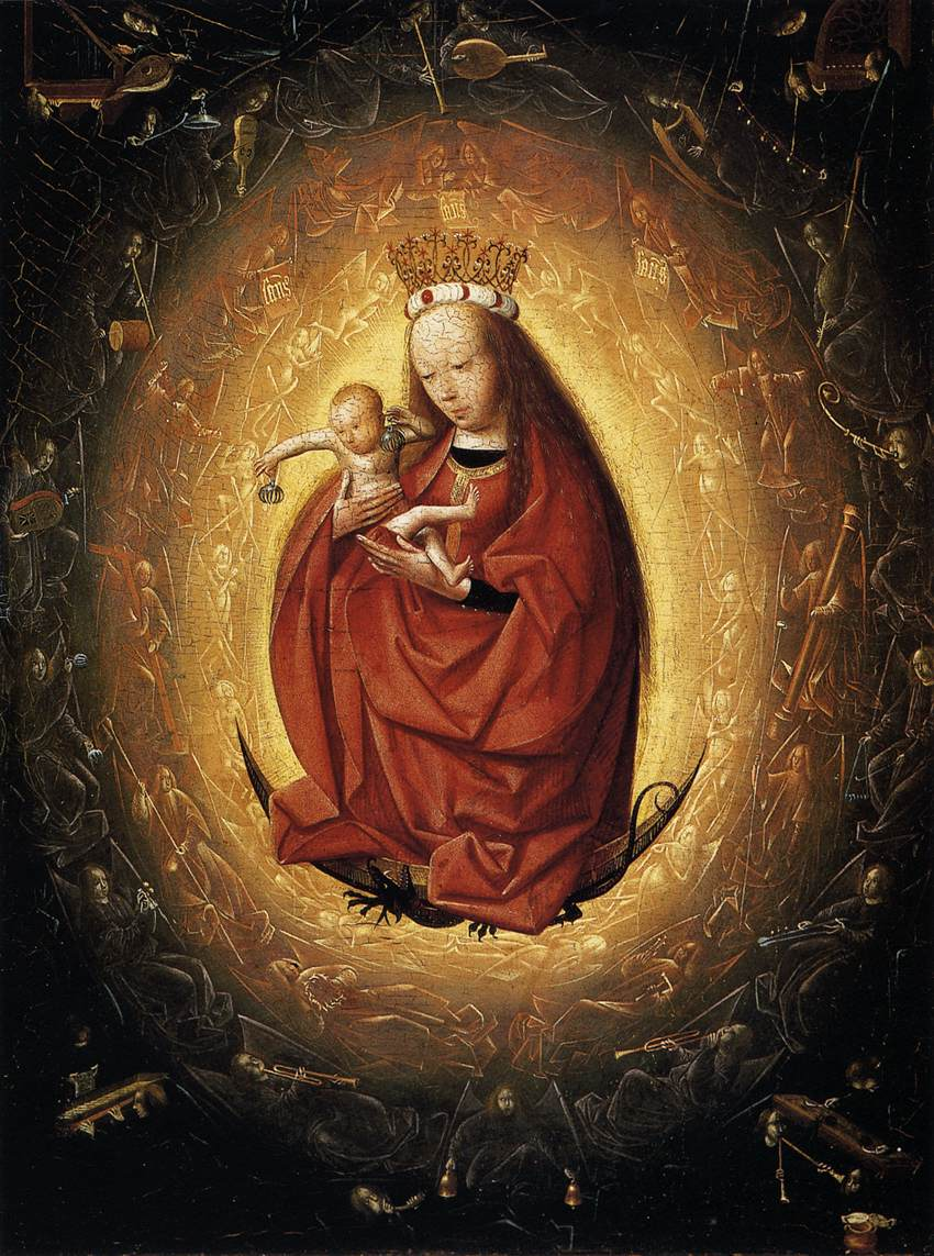 Inner right wing of a diptych. See for the inner left wing File:Geertgen Kruisiging Edinburg.jpg.